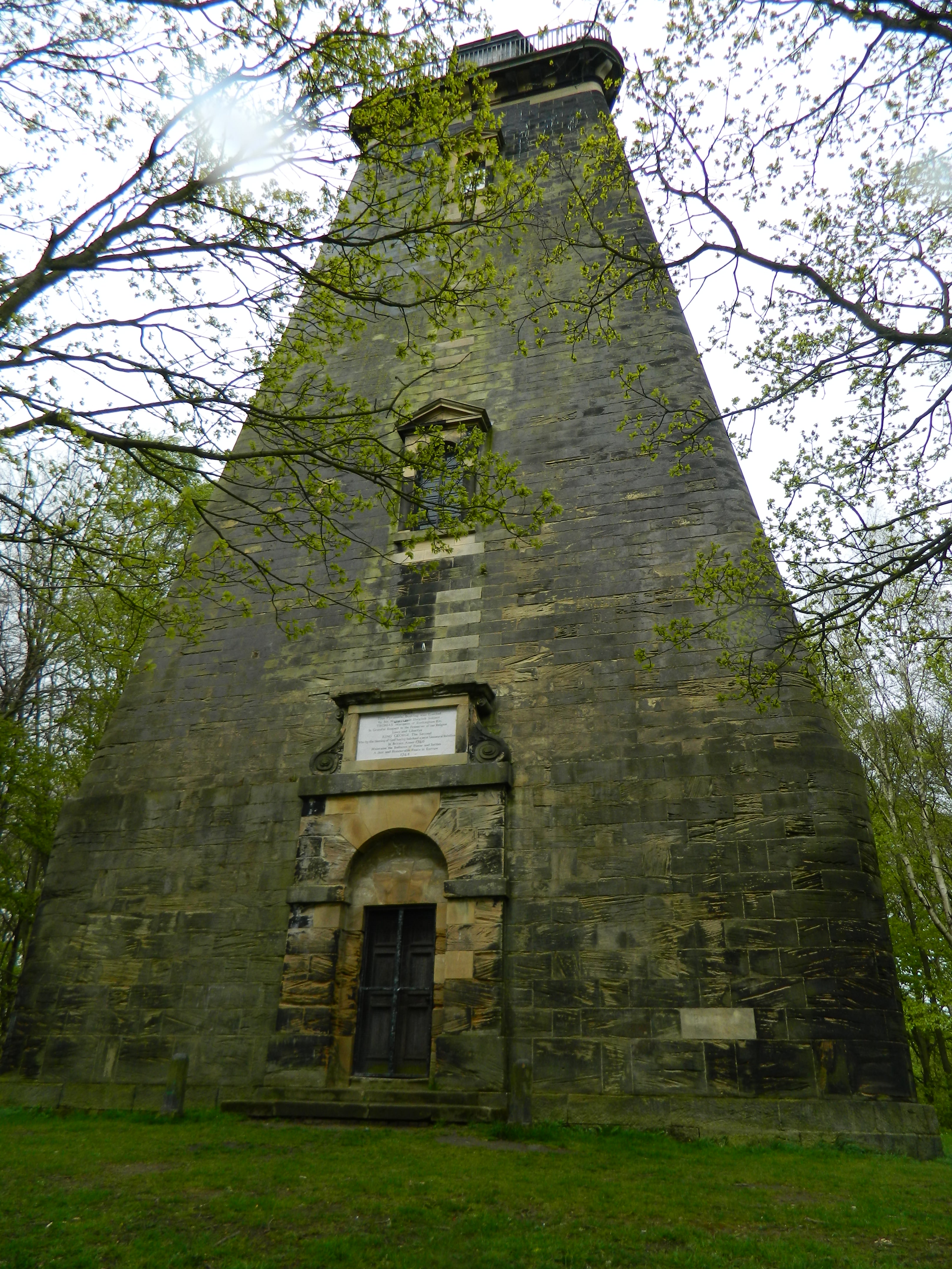 The Hoober Stand which is located in Wentworth, South Yorkshire.